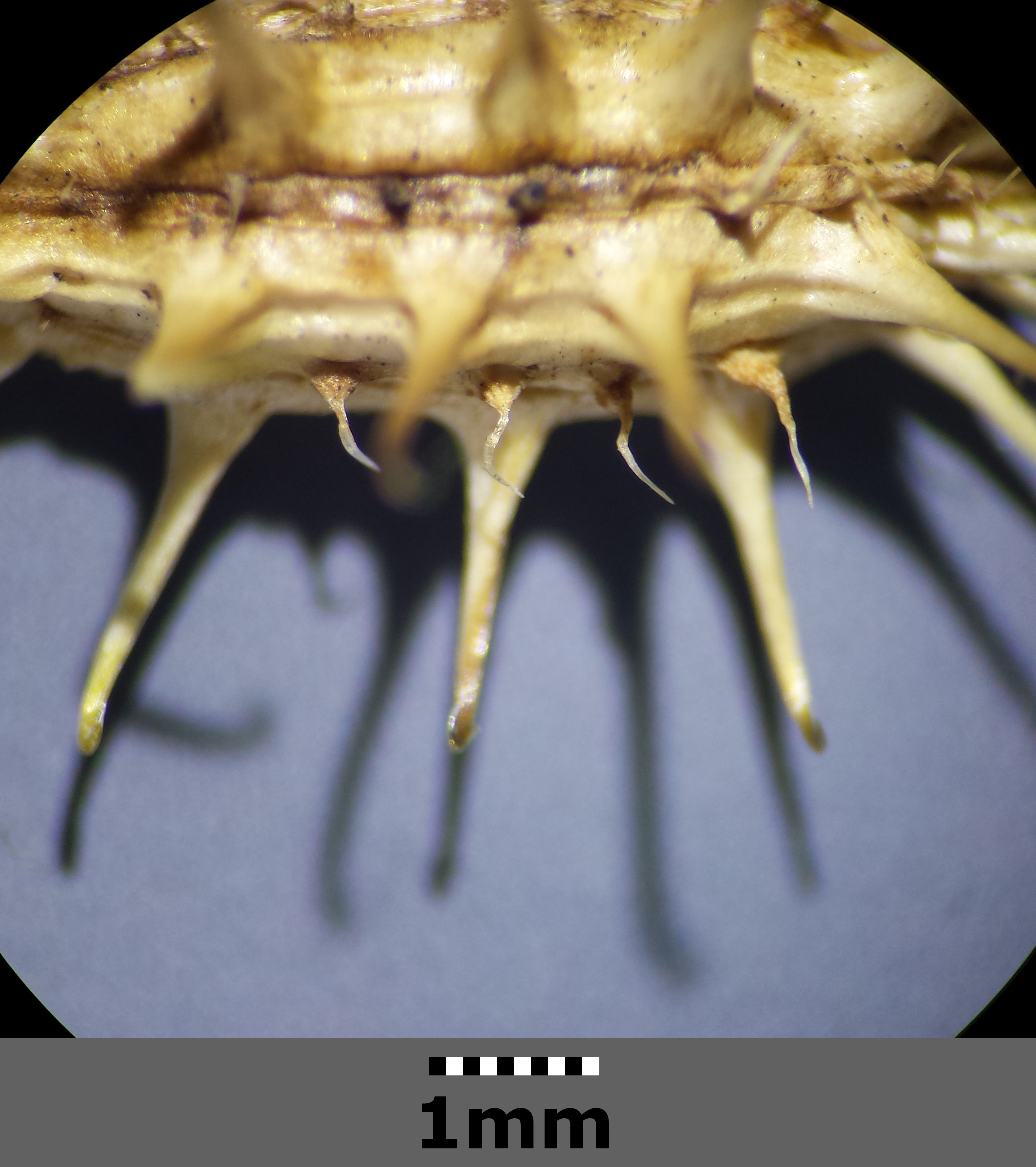 Fruit, bristles in between prickles Taxonym: Caucalis platycarpos subsp. platycarpos (ss Fischer et al. EfÖLS 2008 ISBN 978-3-85474-187-9) Location: Steinbacher Heide, Leiser Berge, district Korneuburg, Lower Austria - ca. 450 m a.s.l. Habitat: stony field